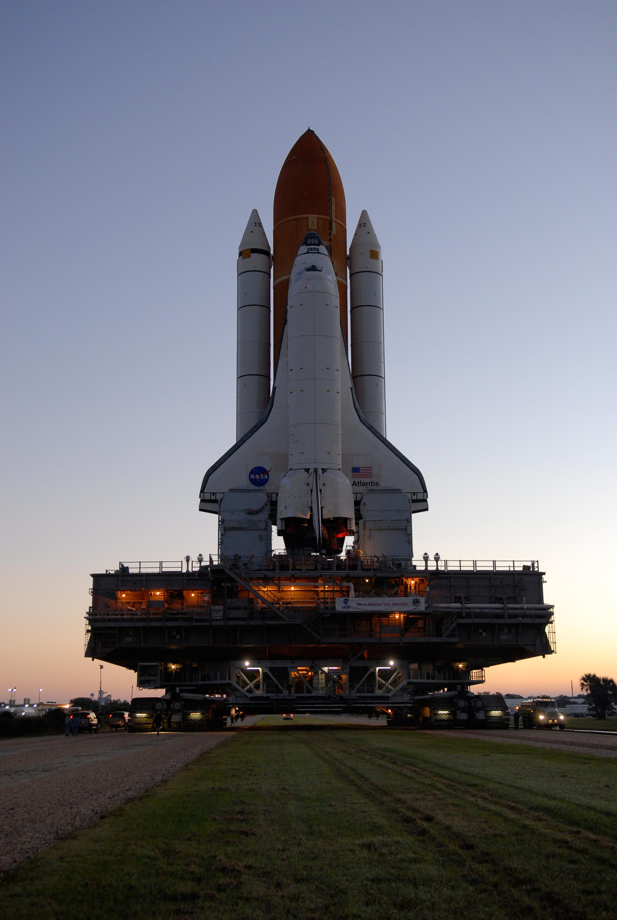 A crawler transporter moves Space Shuttle Atlantis, secured atop a mobile launch platform, along the crawlerway from the Vehicle Assembly Building to Launch Pad 39A on a beautiful Florida morning. The crawler transporter, mobile launch platform and unfueled space shuttle weigh a total of approximately 17.5 million pounds. Rollout is a milestone for Atlantis' launch to the International Space Station on mission STS-122, targeted for Dec. 6.